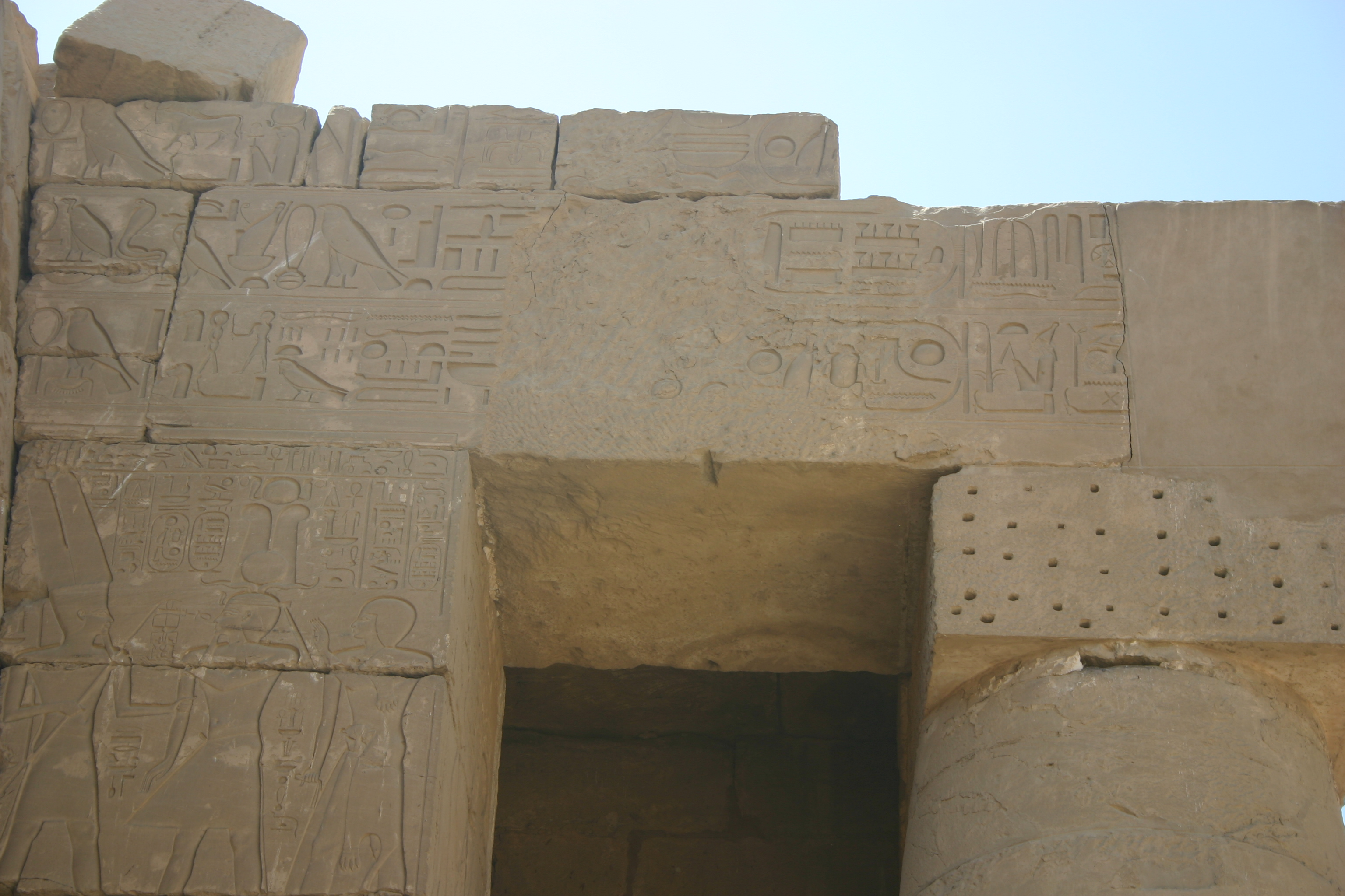 A Bubastis portal at Karnak, showing the cartouches of pharaoh Sheshonk I.